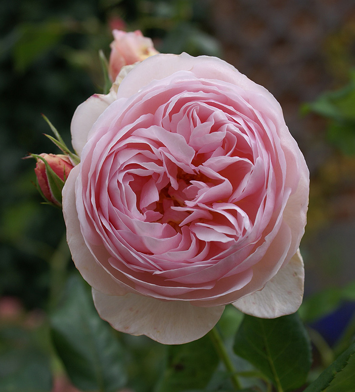 Old English rose (Rose Heritage) from David Austin